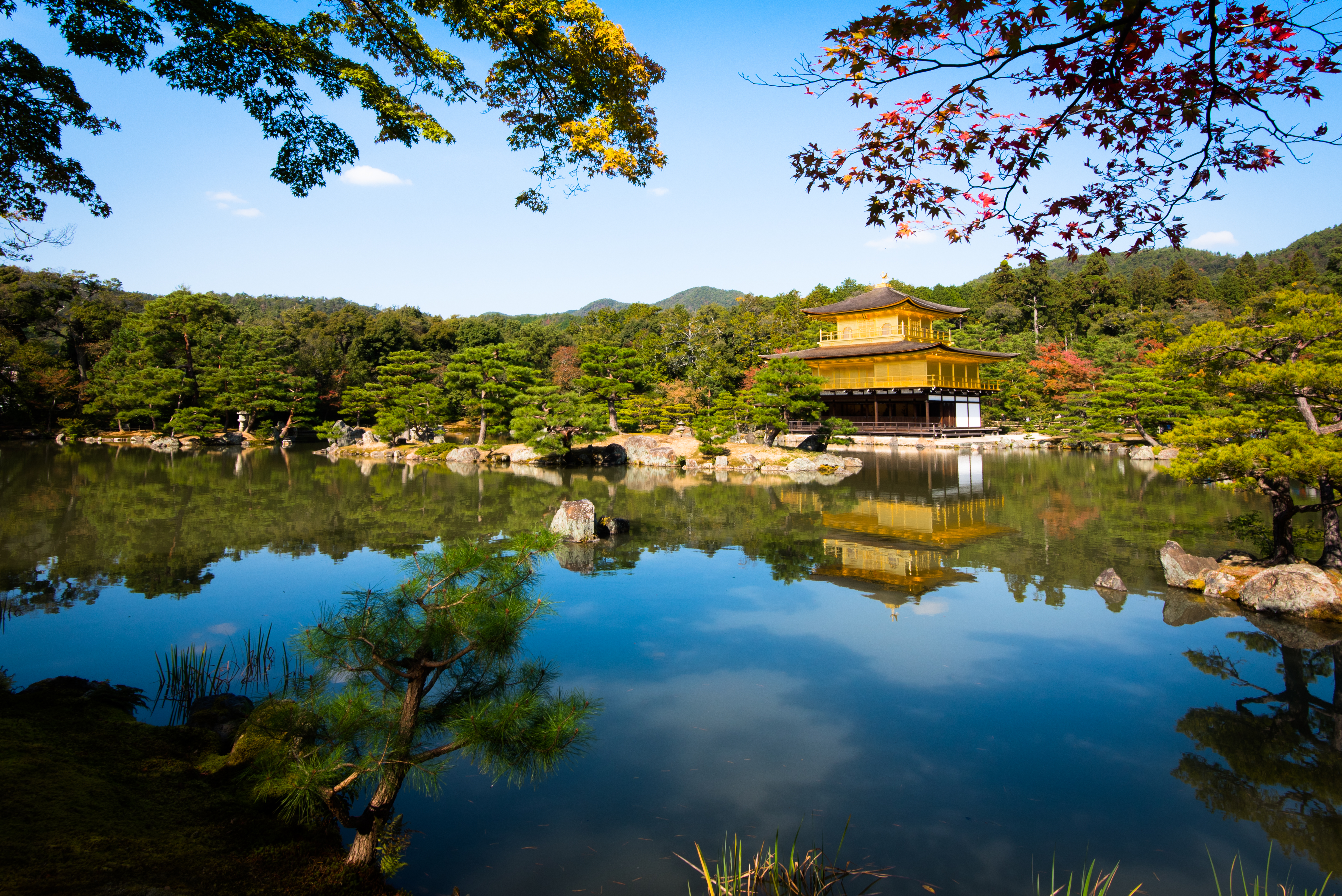 Kinkaku-ji ("Temple of the Golden Pavillion) is one of the most popular buildings of Japan. The building is majestic and the garden is beautiful. There is a reason people flock to see this temple. Fun fact: the building was burned down by a monk in 1950.